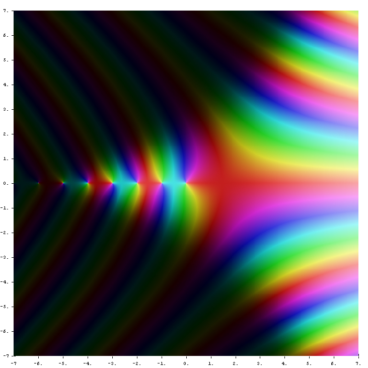 function Gamma[z] in the complex plane